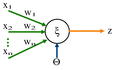 Single perceptron with n inputs, one output and threshold